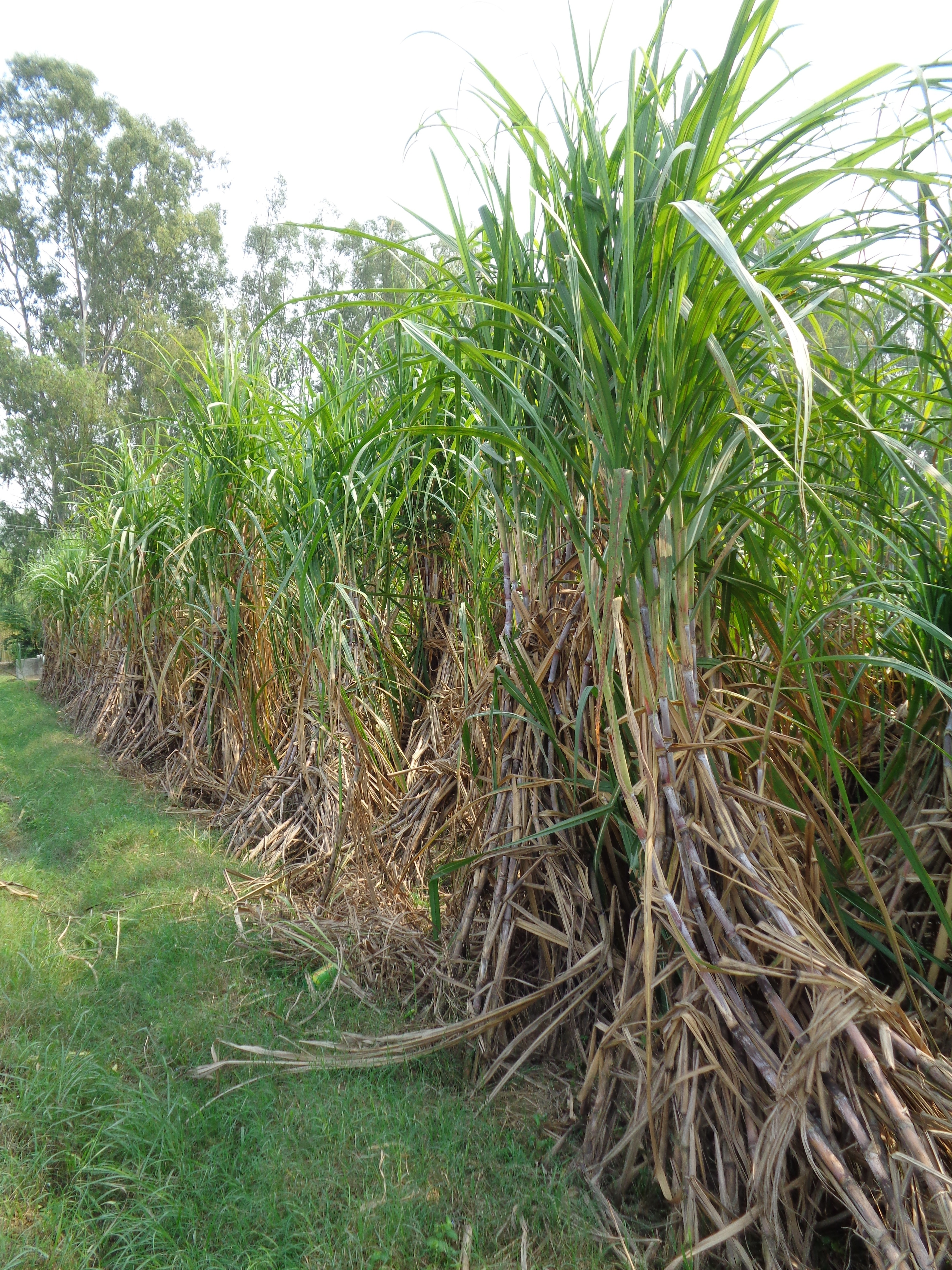 Sugarcane in Punjab